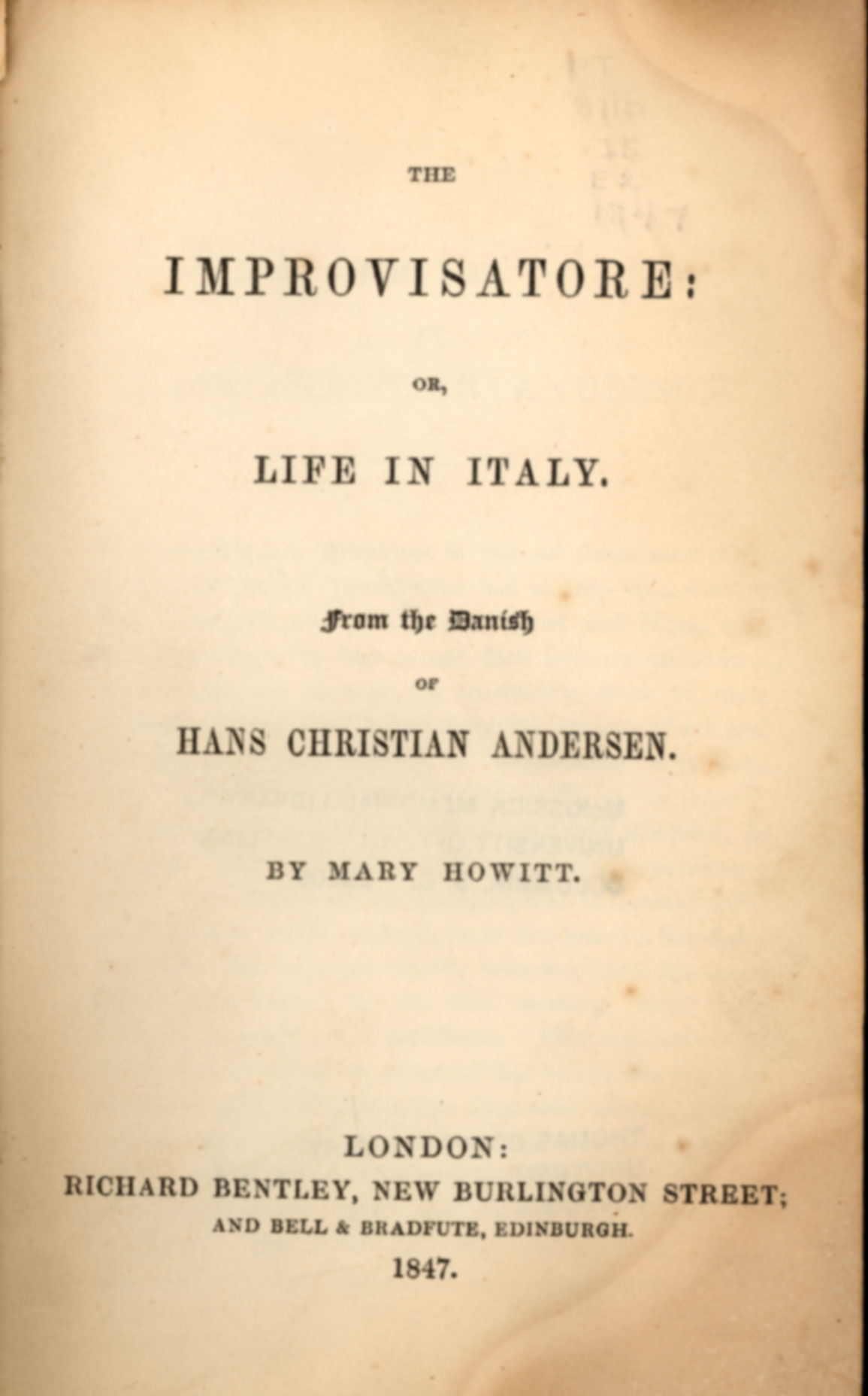 Cover page of the English translation (1847) of The Improvisatore, a novel written by Hans Christian Andersen in 1833